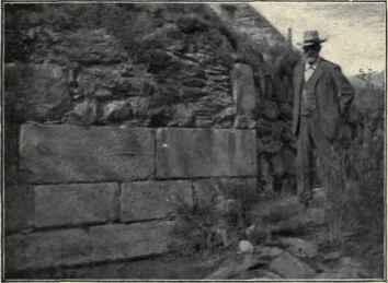 The foundation of the Roman bridge, called Brückenkopf ("Bridgehead"), over which the Via Claudia Augusta crossed the Adige river in Algund, South Tyrol. Picture taken in 1901 or before.